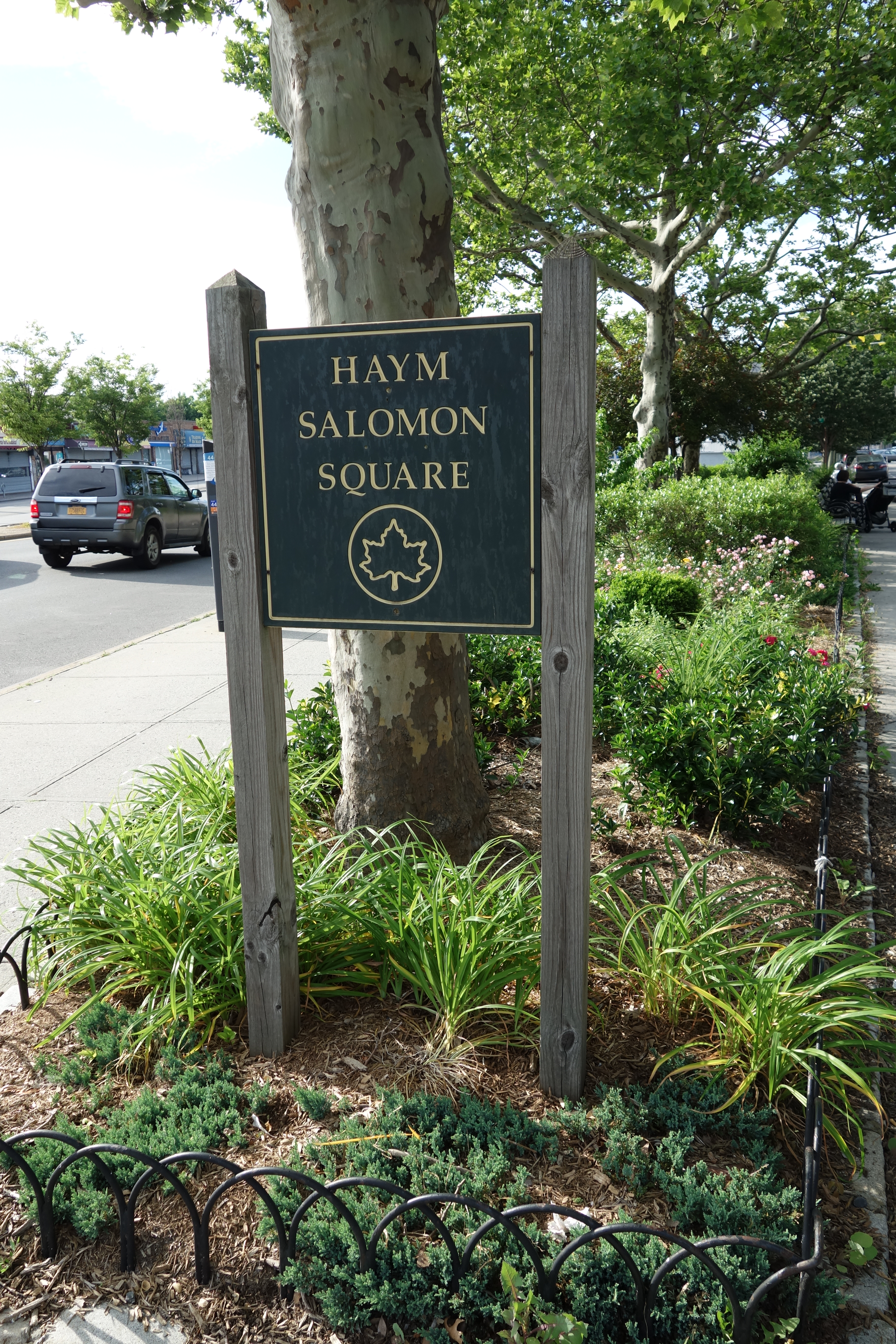 Haym Salomon Square, across from the Kew Gardens Hills branch of Queens Library at Main Street / Vleigh Place and 72nd Road in Kew Gardens Hills, Queens.